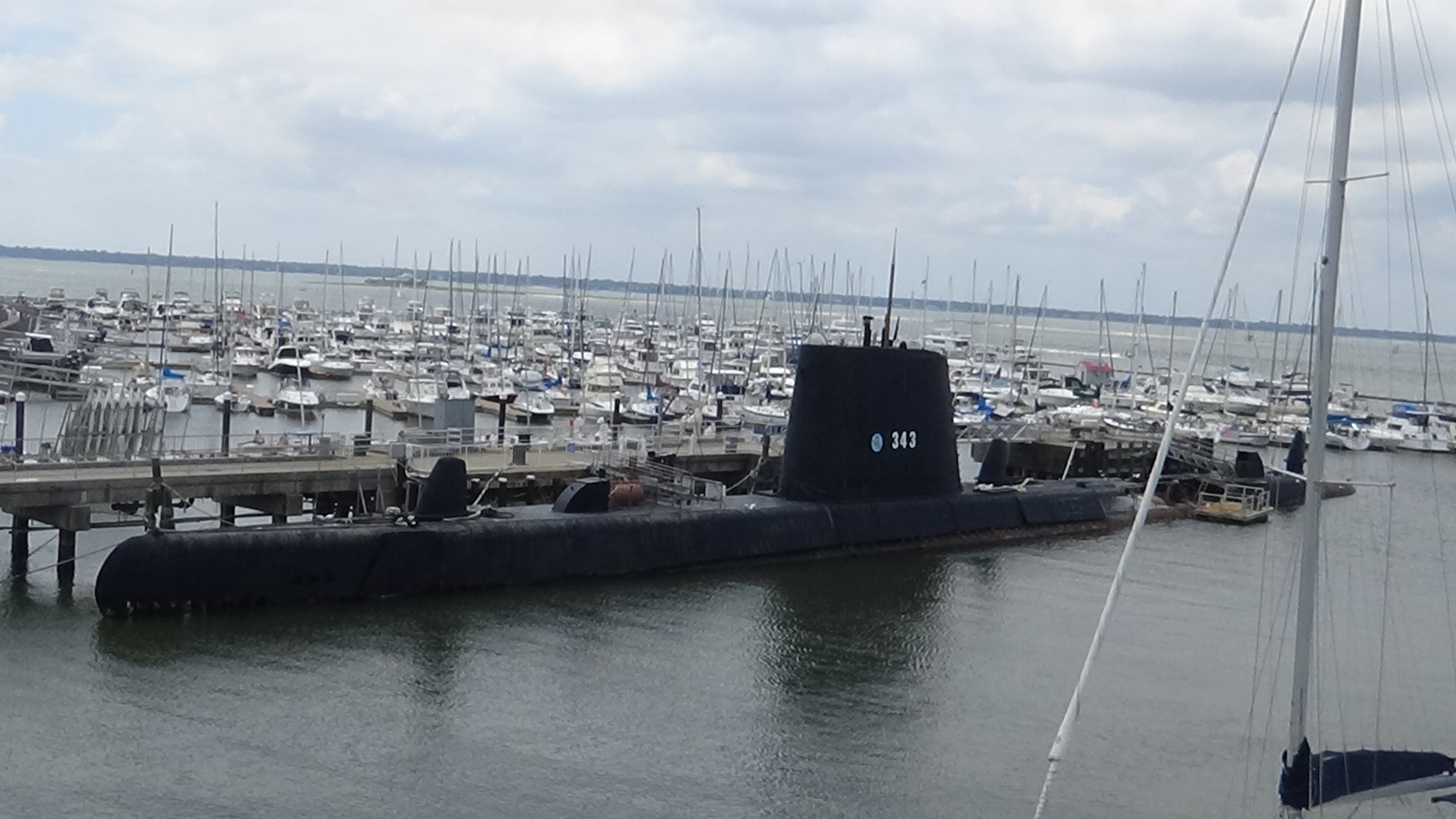 Patriots Point Naval And Maritime Museum